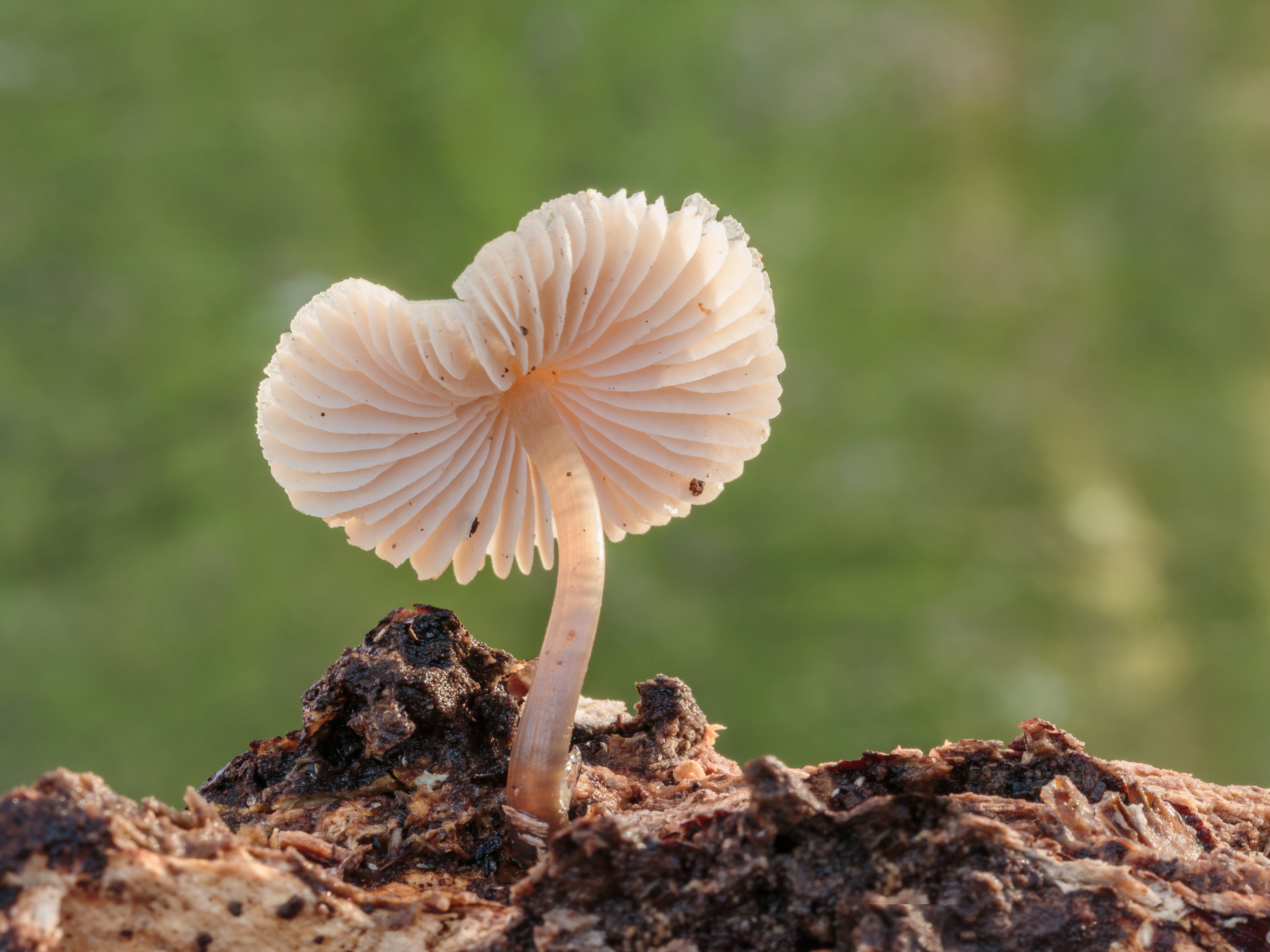 Bottom of one Mycena galericulata on a half-decayed tree stump. Only 24 millimeters in diameter.